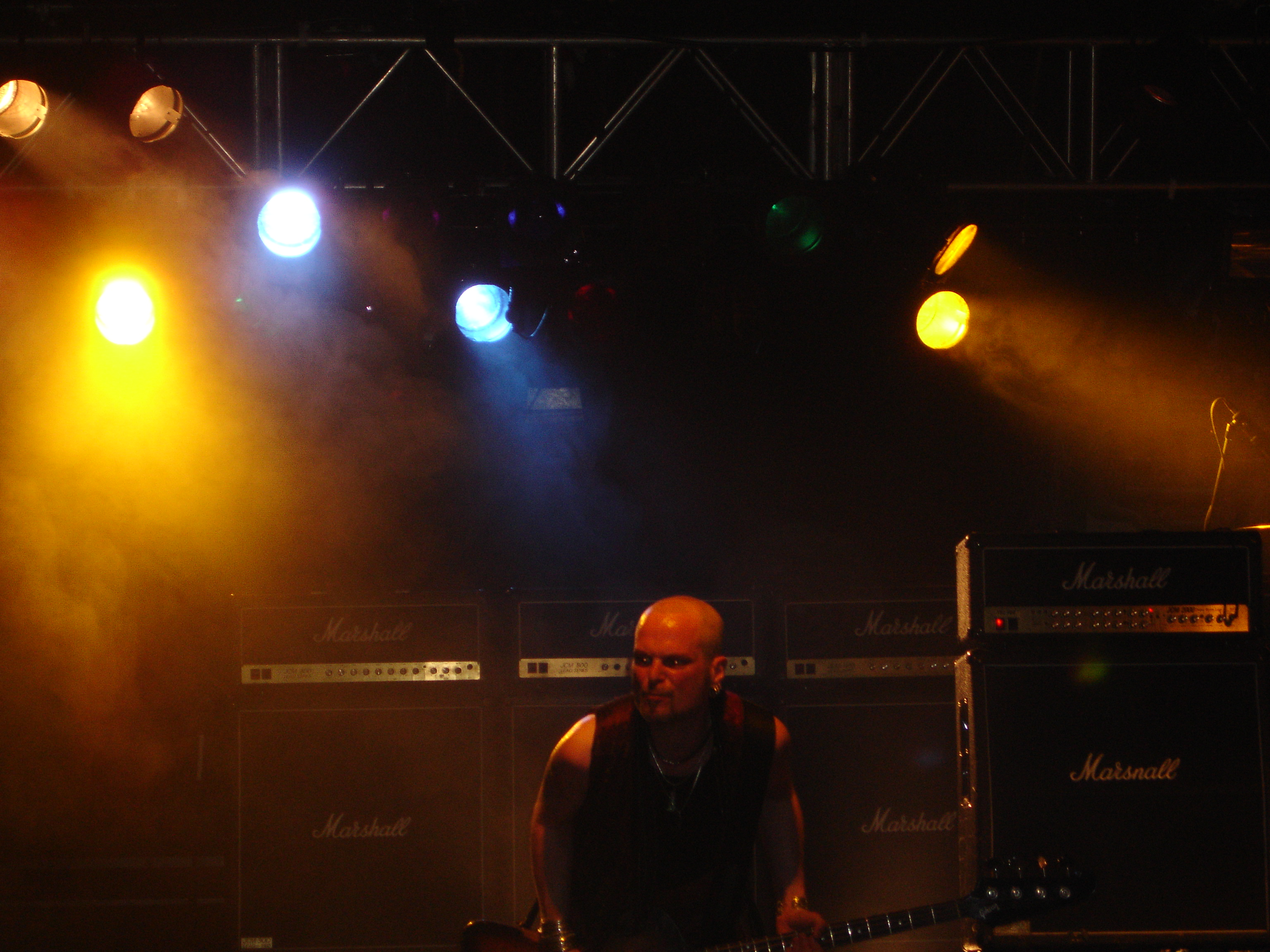 Andy "A.C." Christell from Hanoi Rocks at the Manchester Academy.